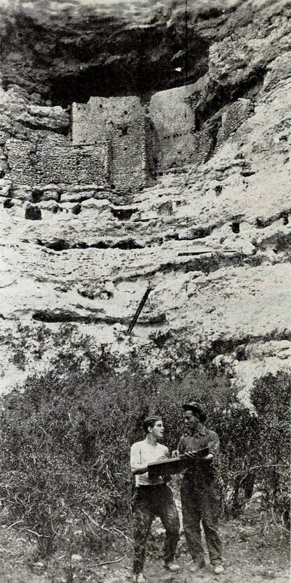 Hoot Gibson, Universal star of The Galloping Kid (1922), signs the guest book of a forest ranger at Montezuma's Castle near Prescott, Arizona, where the movie was filmed. On page 14 of the August 26, 1922 Universal Weekly.